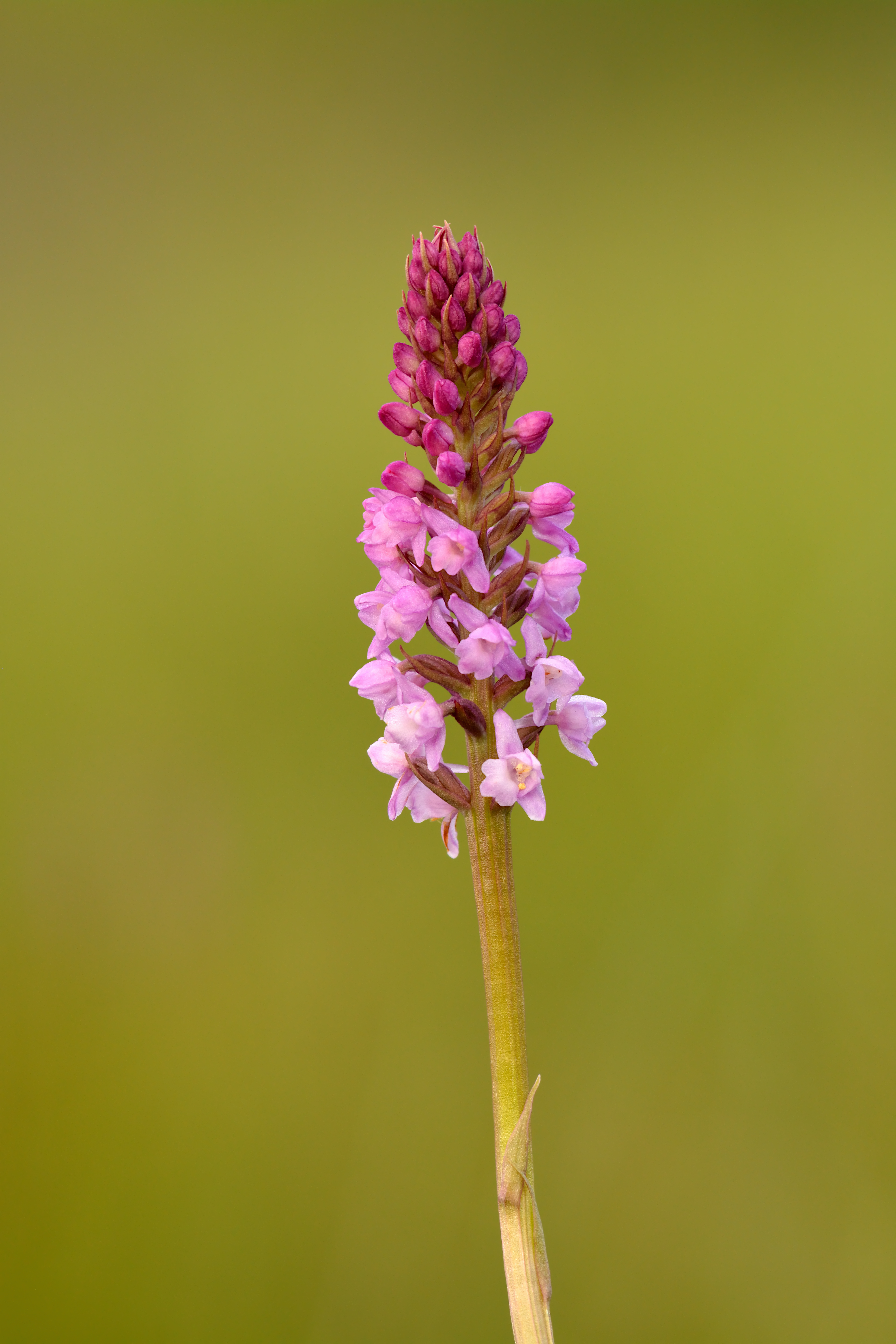 Short spurred fragrant orchid